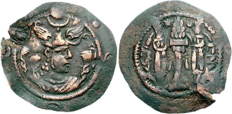 Hephthalites coinage imitating Peroz I Late 5th century CE. BI Drachm (2.43 g, 10h). Imitating Sasanian king Peroz I, AD 438-457. Crowned bust right; four large pellets along border, IOOMO in lower right outer margin; c/m: head right in floral spray / Fire altar with ribbons and attendants; star and crescent flanking flames.